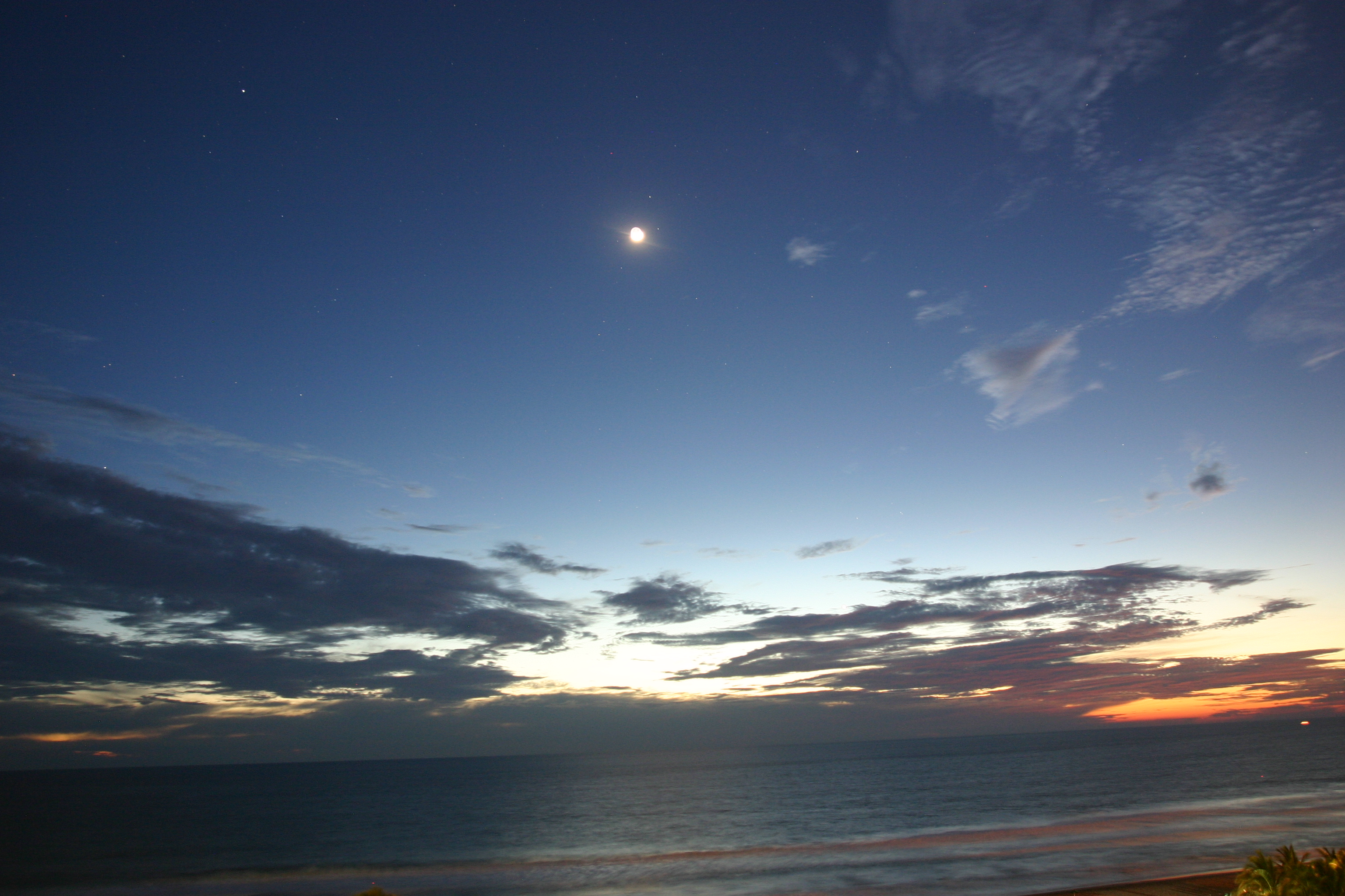 This is a very rare shot of Dusk at Acapulco, during the winter when the Moon rises well before complete darkness. It was taken using Long time Exposure to achieve the "Magick photo" effect, but there are NO Photoshop effects involved in this photo!